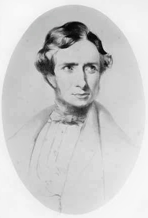 Portrait of Sir John Morphett, South Australian pioneer and politician.